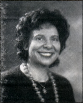 The writer Sandra Lombardi